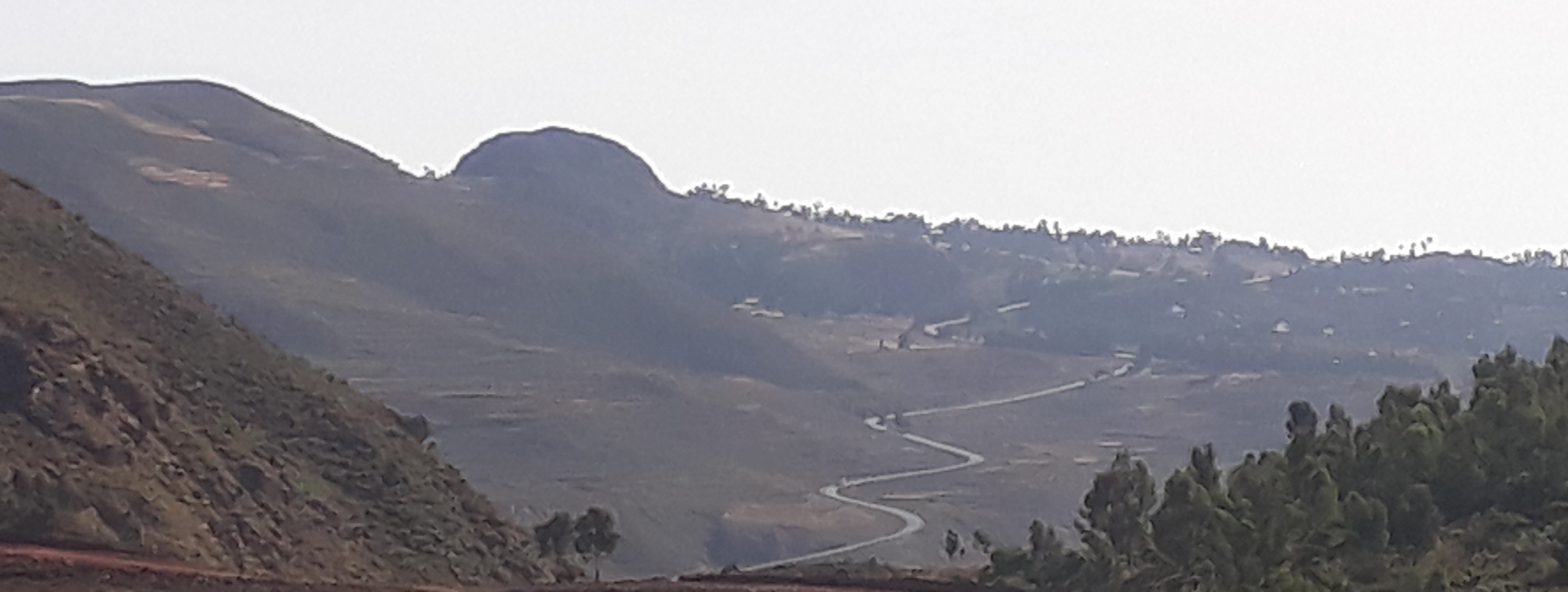 May Selelo headwaters2